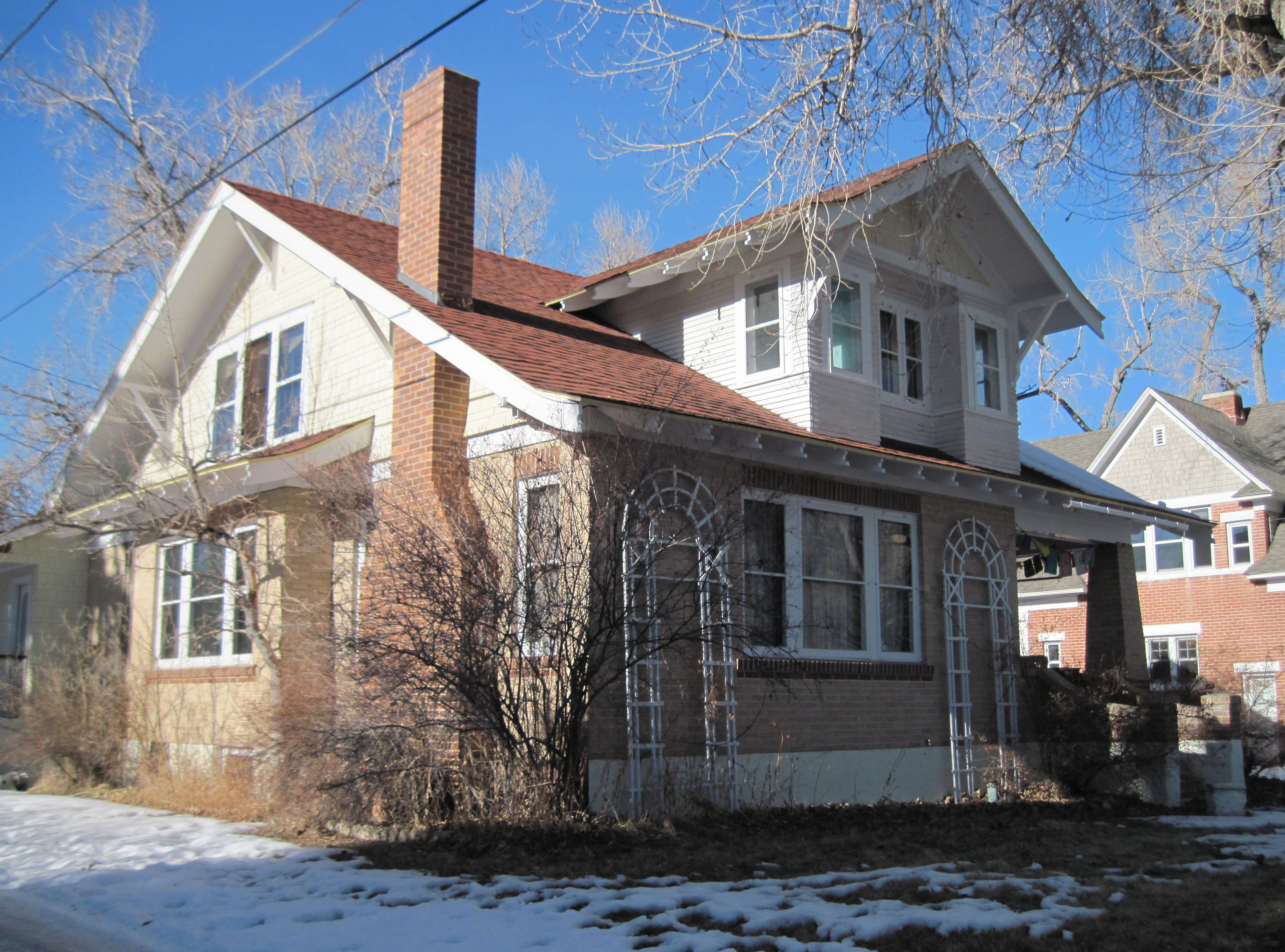 Residence in the Jackson Park Town Site Addition Brick Row. 635 South Third Street, Lander, Wyoming. Southeast elevation.